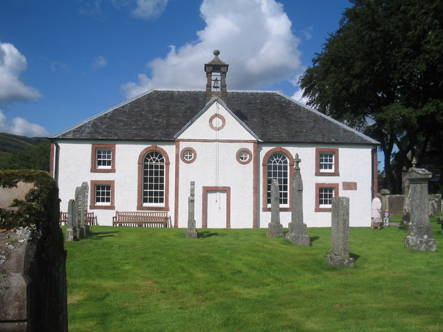 Kilmodan Church, birthplace of mathematician Colin Maclaurin, Cowal, Scotland